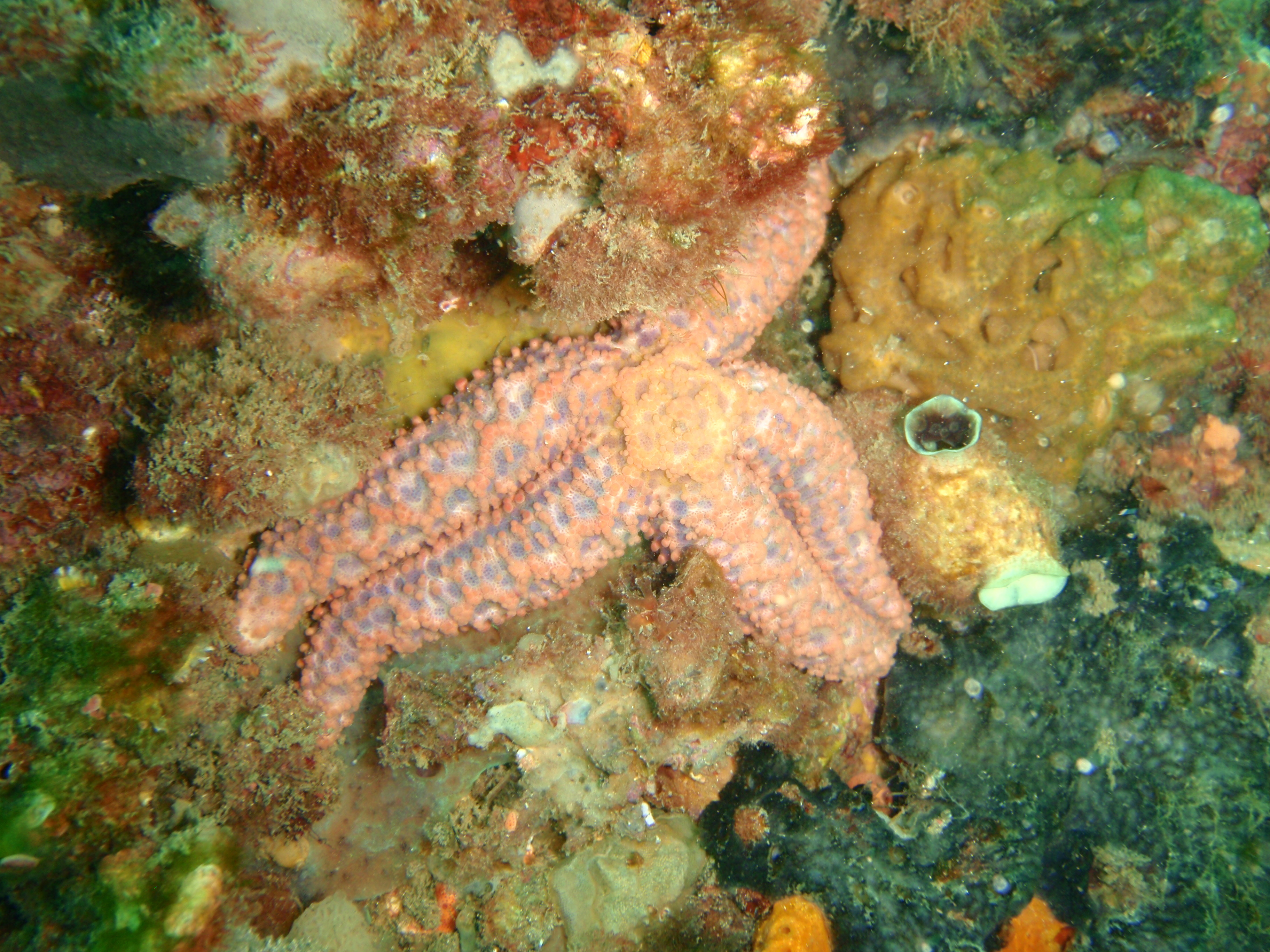 Granular seastar Uniophora granifera at Port Noarlunga Jetty outside reef